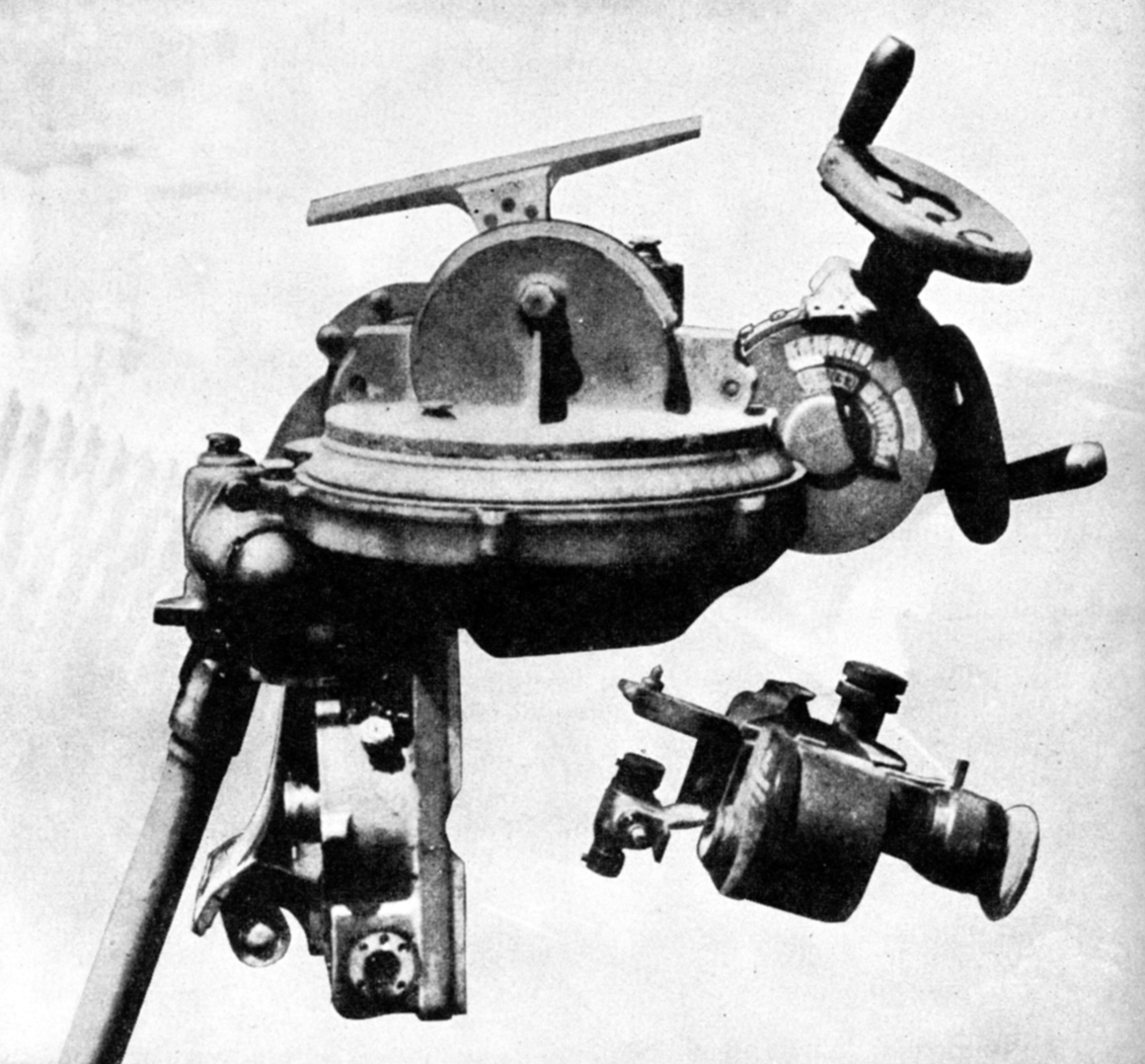 A Japanese mechanical lead computing sight mounted on a Type 96 25 mm machine gun triple mount (whited out of the picture). Note that it is used with a small sighting telescope instead of the more usual open ring.